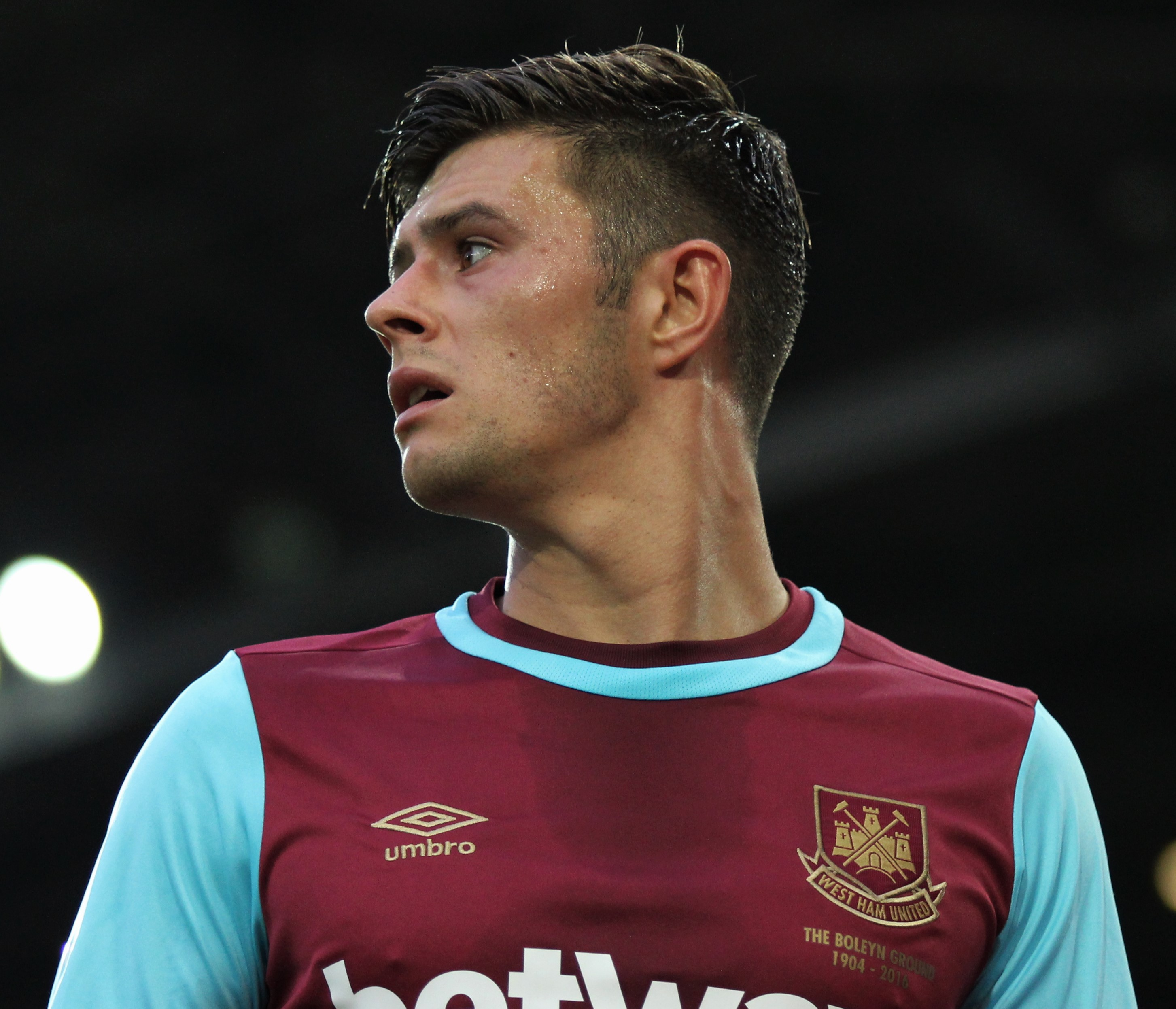 Aaron Cresswell of West Ham during the game against Birkirkara.